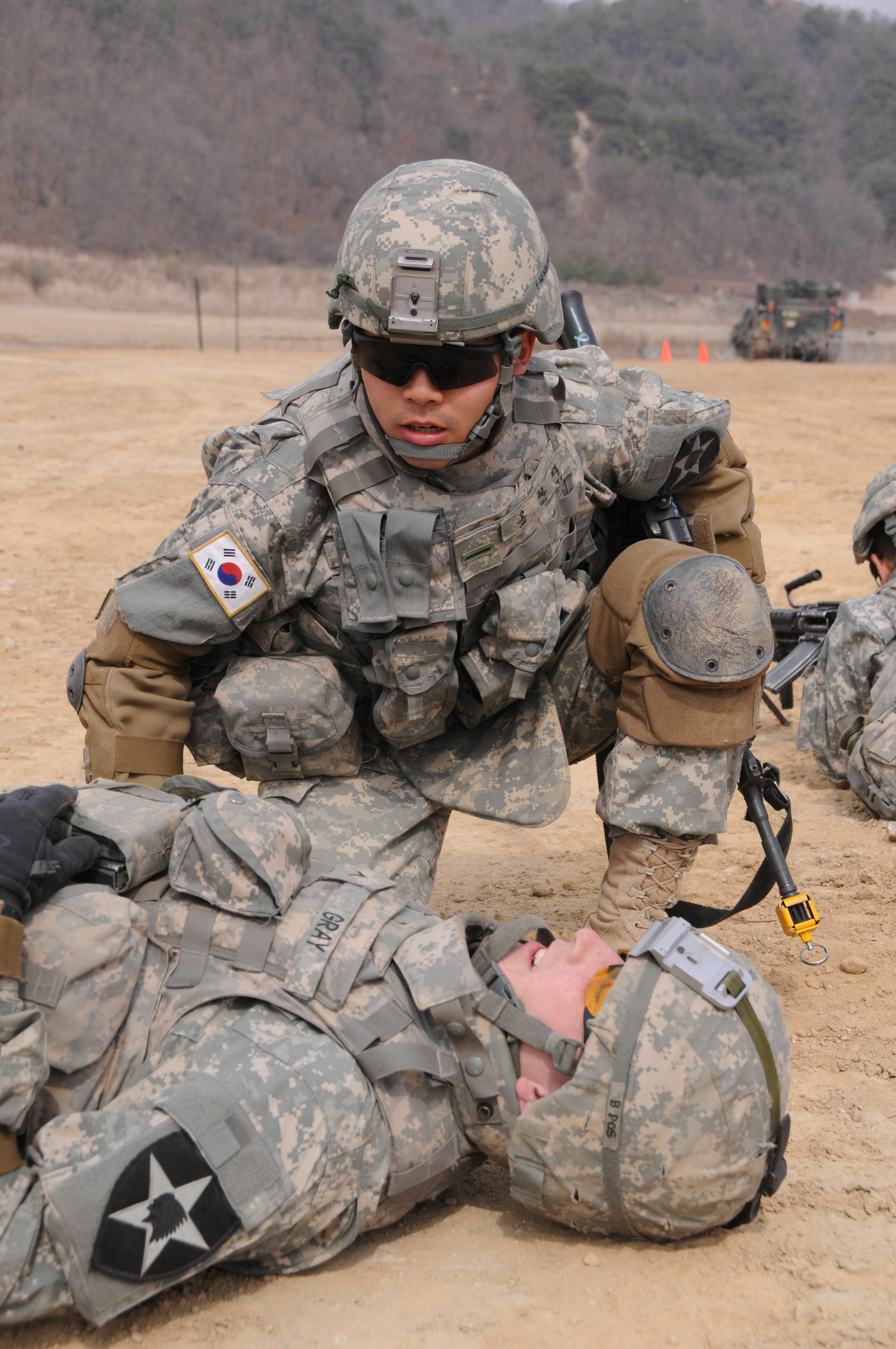 A Korean Augmentee to the U.S. Army, from 2nd Battalion, 9th Infantry Regiment, Camp Casey, oversees a wounded U.S. Soldier, during a demonstration, at Rodriguez Live Fire Complex in Paju, Republic of Korea, April 3, 2009